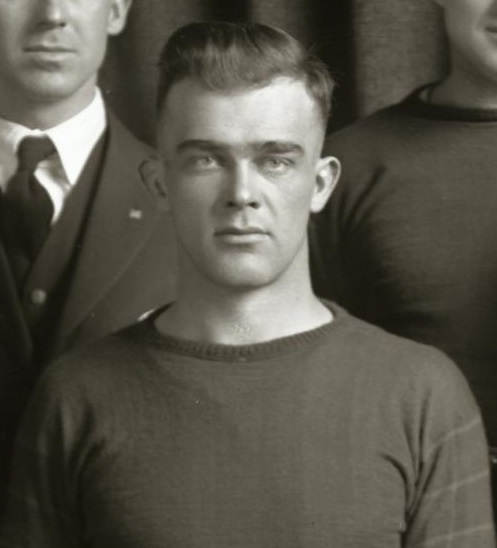 Photograph of Roy W. Johnson